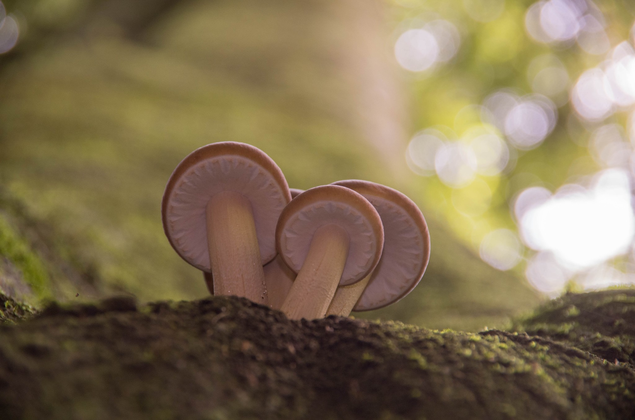 Underside picture of a young Cyclocybe parasitica fruiting bodies cluster with intact velum